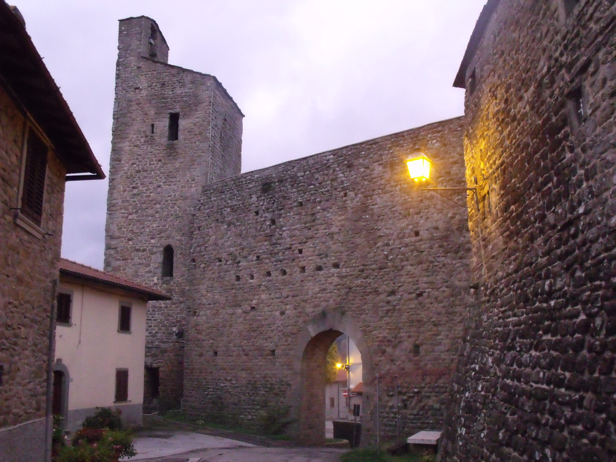 Castello dei Conti Guidi, or Castello Leone in Montemignaio, Province of Arezzo, Tuscany, Italy